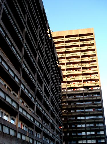 Peter Atkinson, 29/11/06 this can be found here at wikimedia commons